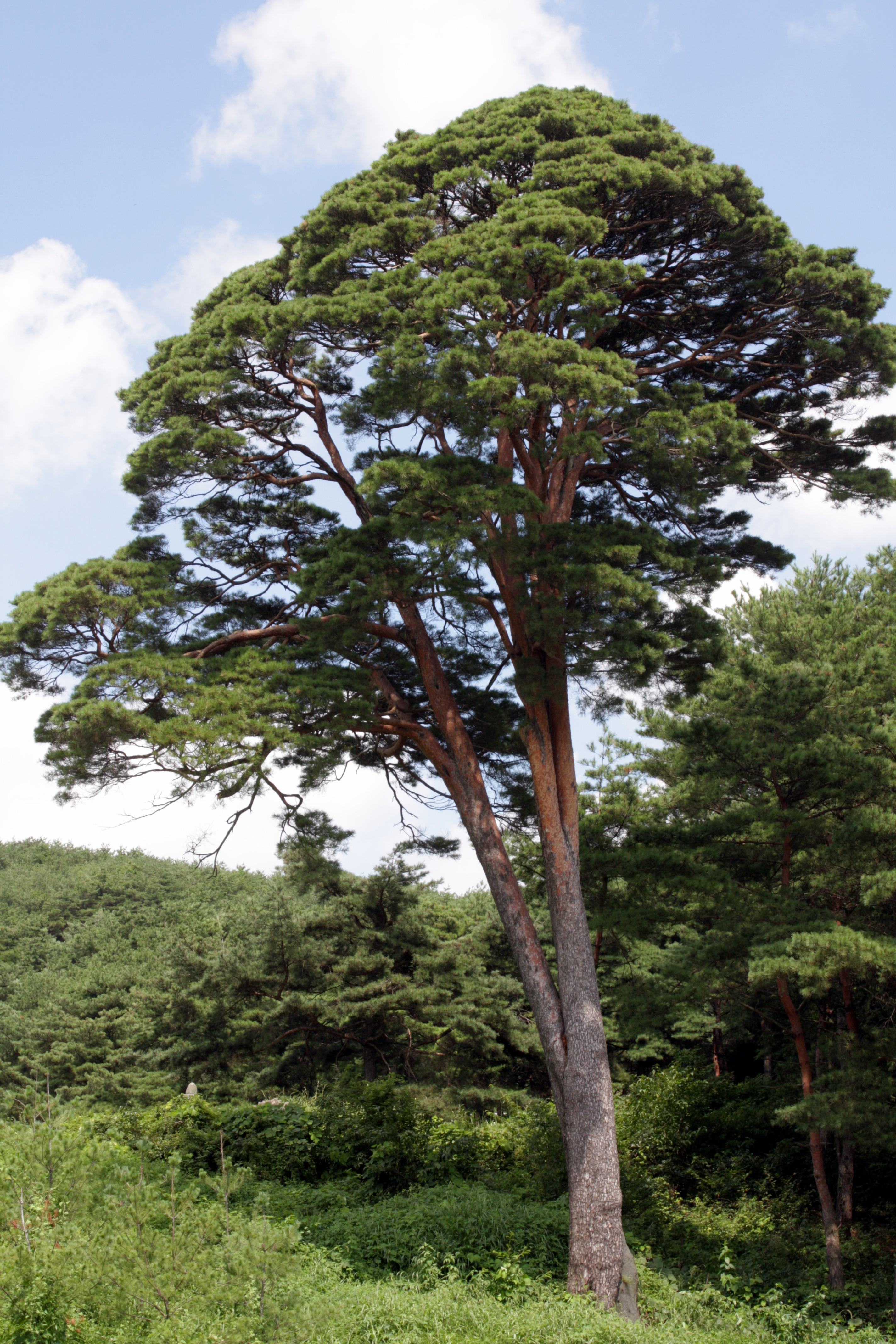 Pinus densiflora in Damyang, Korea